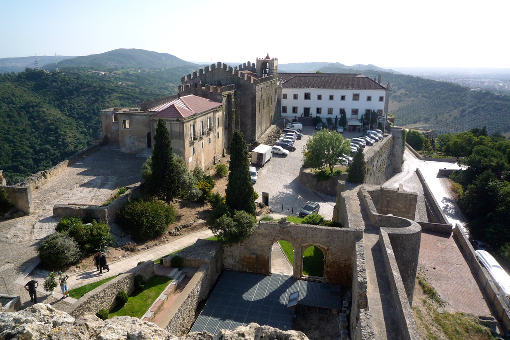 Castle of Palmela, Portugal